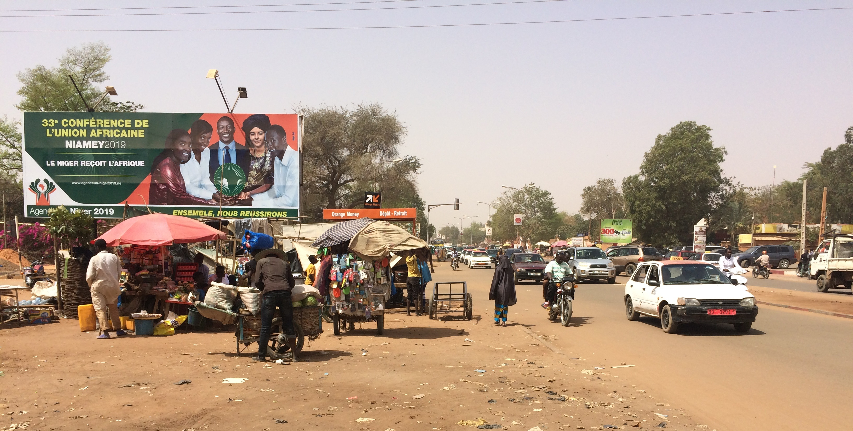 Scene on the Avenue Mali Béro (Rue IB-56) in the Issa Béri neighborhood, Niamey, capital of Niger.